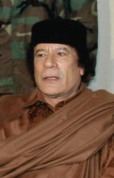 The leader de facto of Libya, Muammar al-Gaddafi.